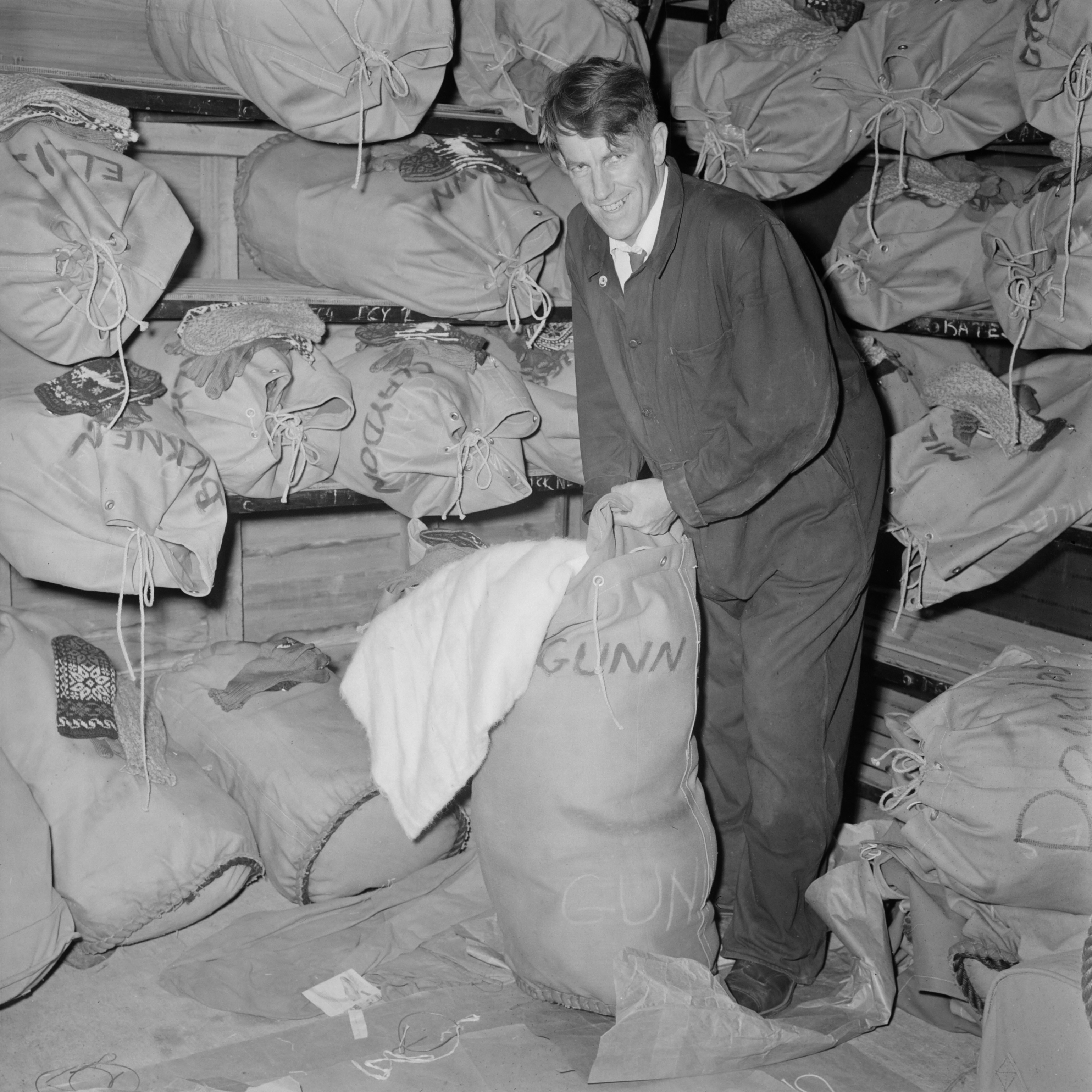 Edmund Hillary packs sack (possibly with bedding or clothing) in preparation for the 1957 Commonwealth Trans-Antarctic Expedition at the Department of Scientific and Industrial Research, Gracefield, Lower Hutt, New Zealand. Photograph taken 1956 for The Evening Post by an unidentified staff photographer. Physical Description: Cellulosic film negative, 6.5 x 6.5 cm.